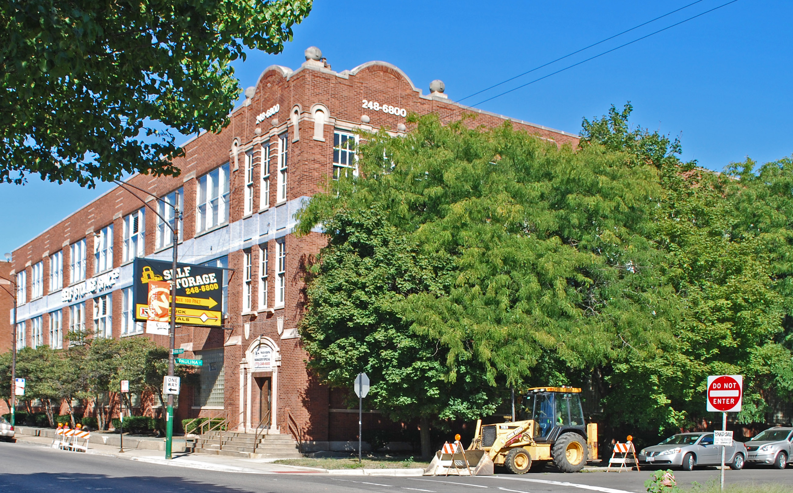 Lava Lamp Factory, 1650 Irving Park, Chicago IL